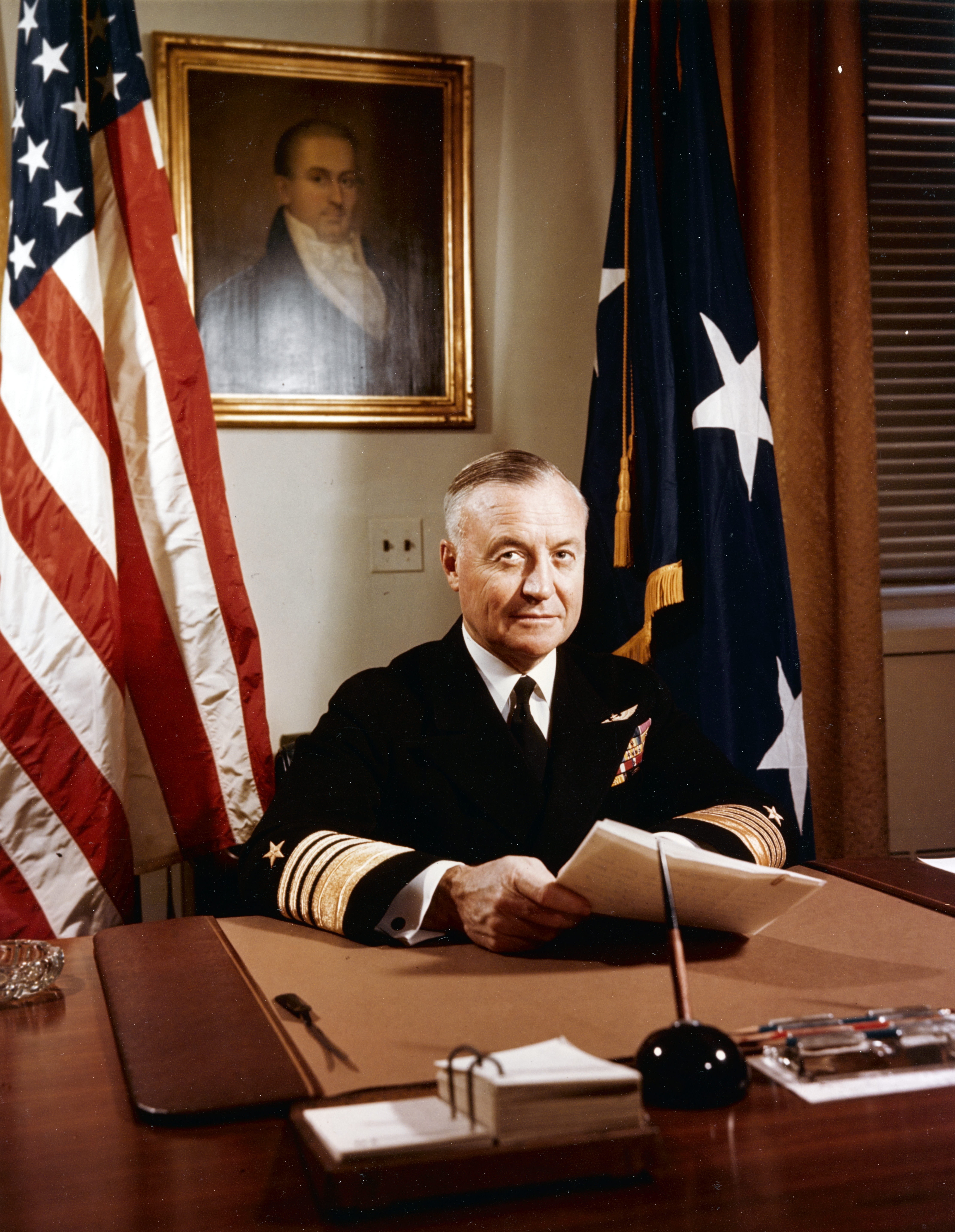 USA C-5848: Admiral Forrest P. Sherman, USN, Chief of Naval Operations At his desk in the Pentagon Building, 10 November 1949. Photographed by Master Sergeant Wingfield, U.S. Army. Photograph from the Army Signal Corps Collection in the U.S. National Archives. (2016/04/11).